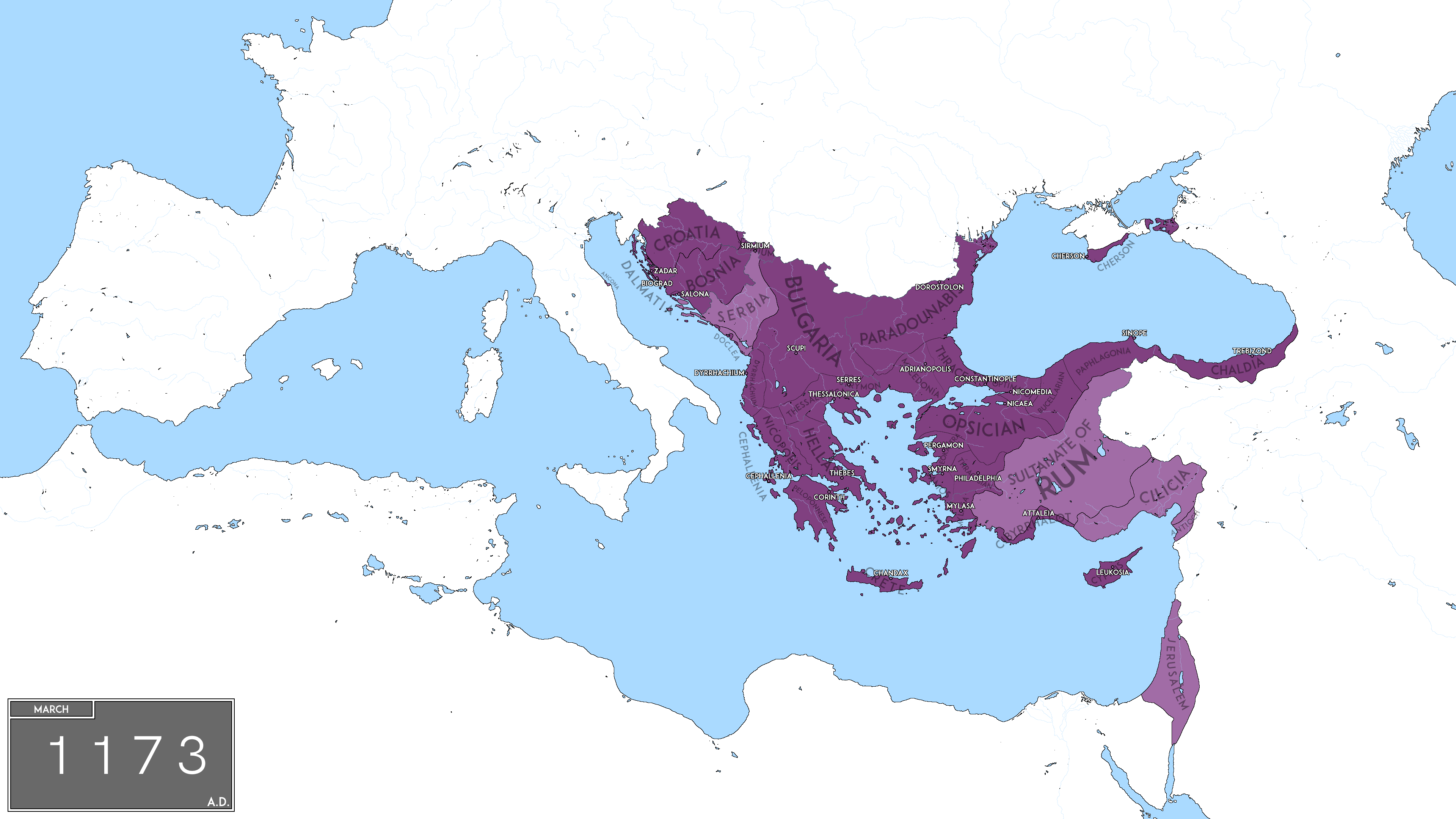 Map of The Eastern Roman Empire under The Komnenos Dynasty.